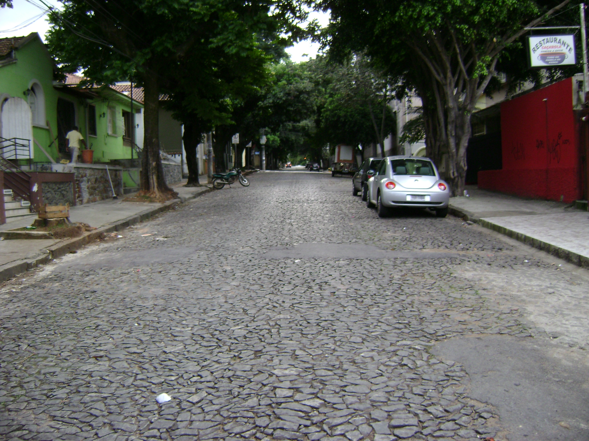 Trecho da rua Congonhas em Belo Horizonte, entre as ruas Leopoldina e Santo Antônio do Monte, no bairro Santo Antônio..